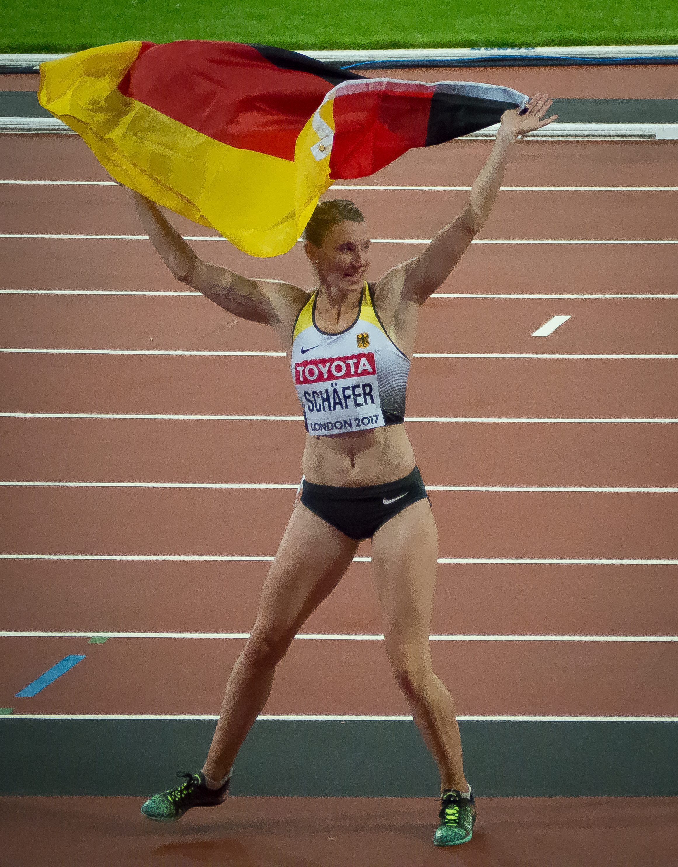 heptathlon, German celebration. London Athletics